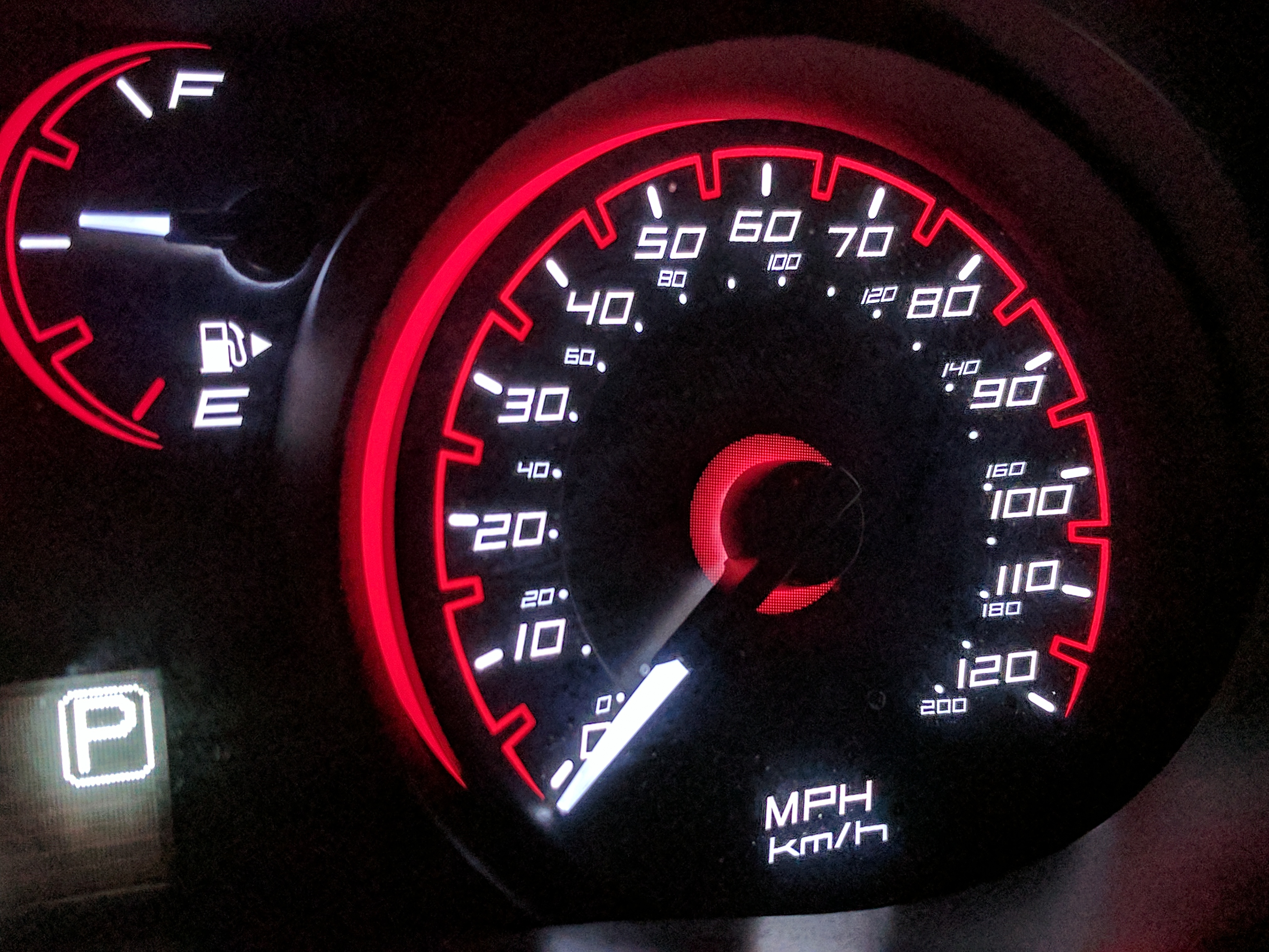 A close up image of the speedometer of 2014 Dodge dart.